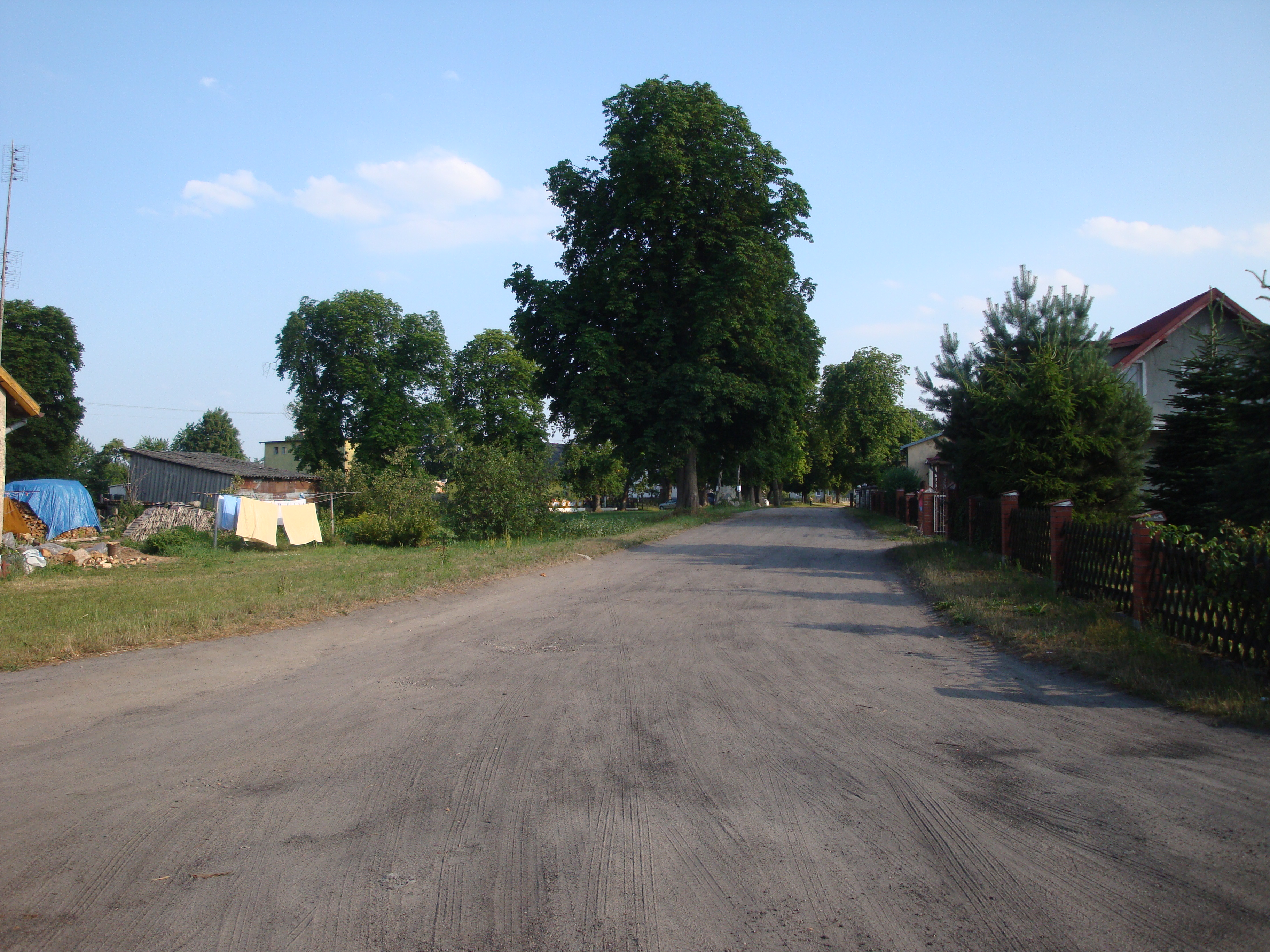 Żoruchowo-village in Pomeranian Voivodeship, Poland.